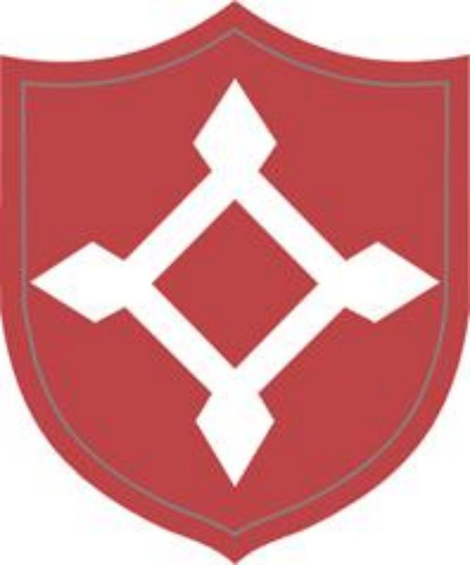 On a red shield 2 1/2 inches (6.35 cm) in width and 3 inches (7.62 cm) in height, a trace outline of "Castillo de Marcos" in white.